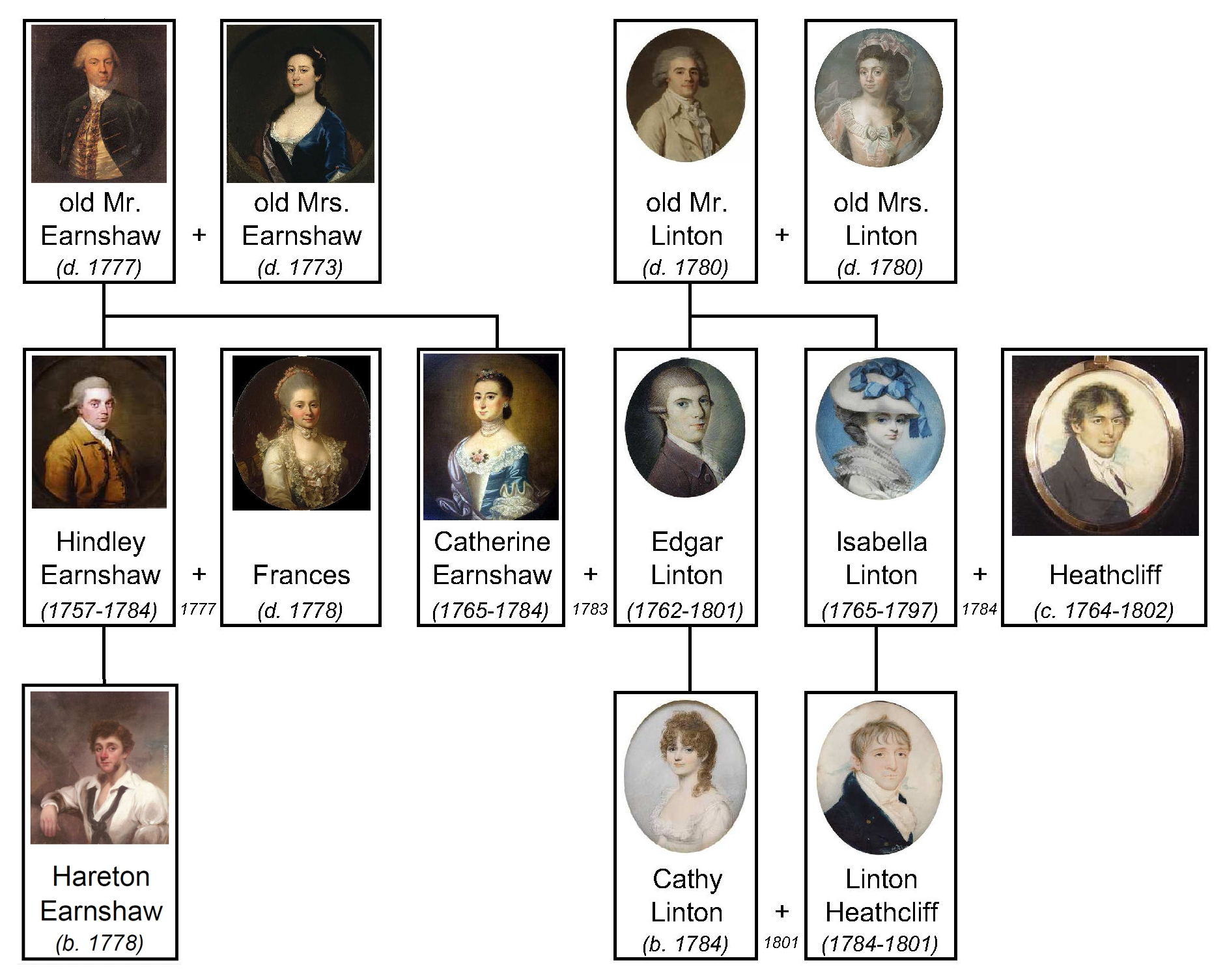 Wuthering Heights family tree. Using PD-Art reproductions of 18-19th-century British portraits of unknown people